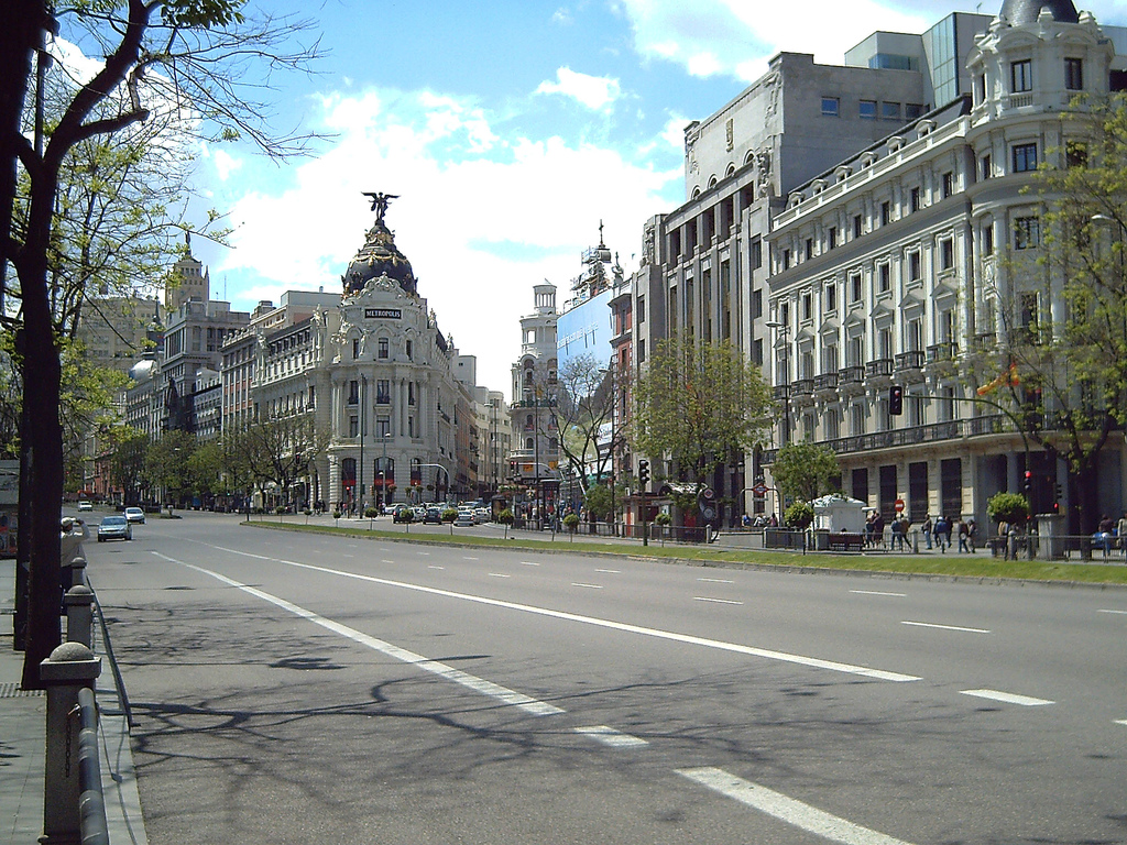 View from Calle de Alcalá (street) in Madrid (Spain). Background: Metropolis Building (1911).